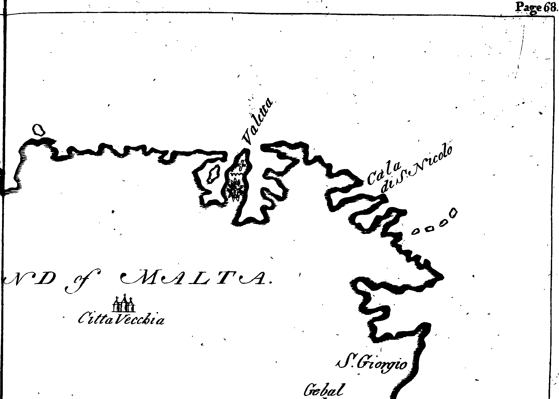 Fleuron from book: Observations and inquiries relating to various parts of ancient history; containing dissertations on the wind Euroclydon, and on the island Melite, together with an account of Egypt in its most early state, and of the Shepherd Kings: wherein The Time of their coming, the Province which they particularly possessed, and to which the Israelites afterwards succeded, is endeavoured to be stated. The Whole calculated to throw Light on the History of that Antient Kingdom, as well as on the Histories of the Assyrians, Chaldeans, Babylonians, Edomites, and other Nations. By Jacob Bryant.